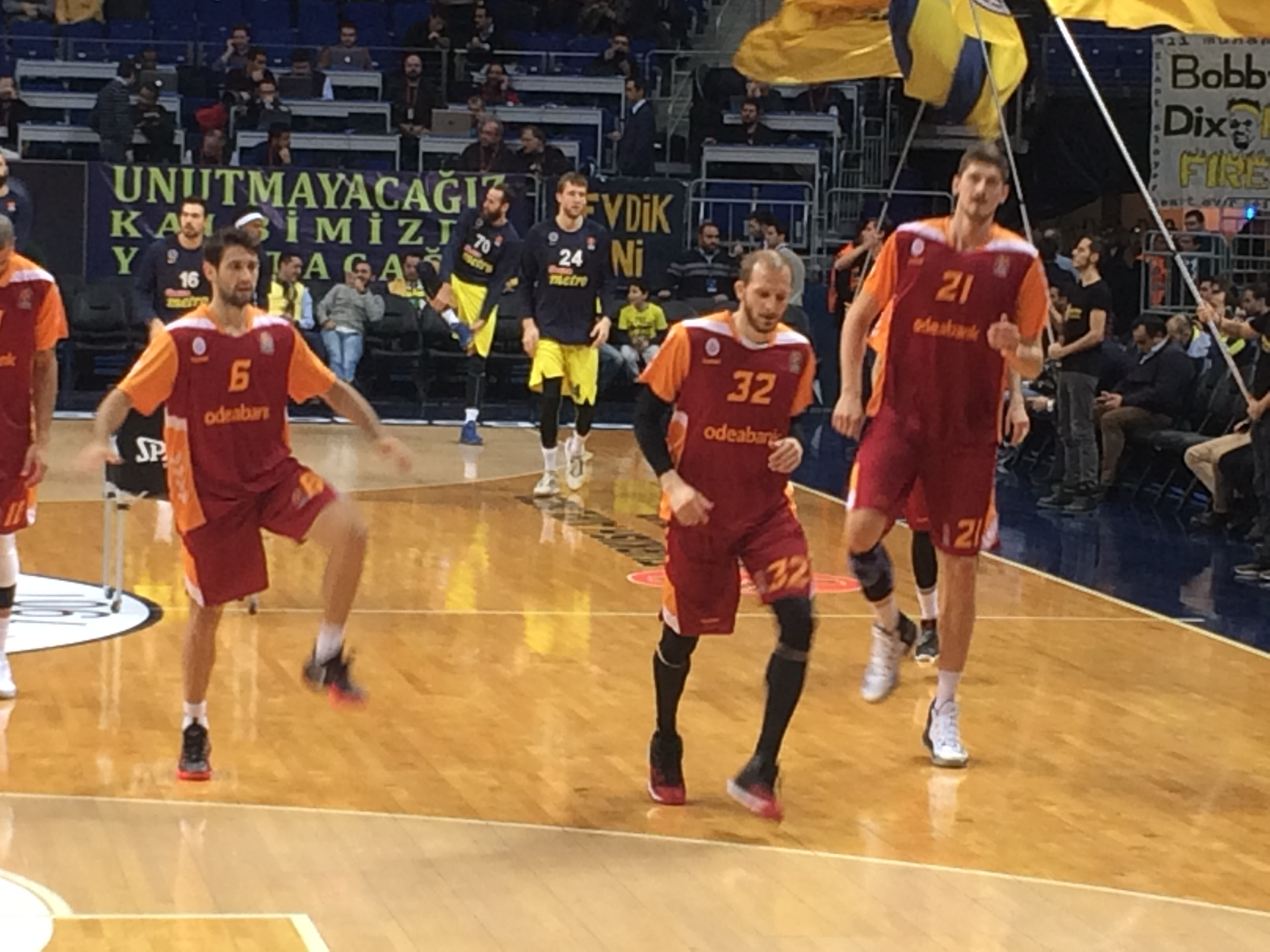 Fenerbahçe Men's Basketball vs Galatasaray Men's Basketball Euroleague 20170126